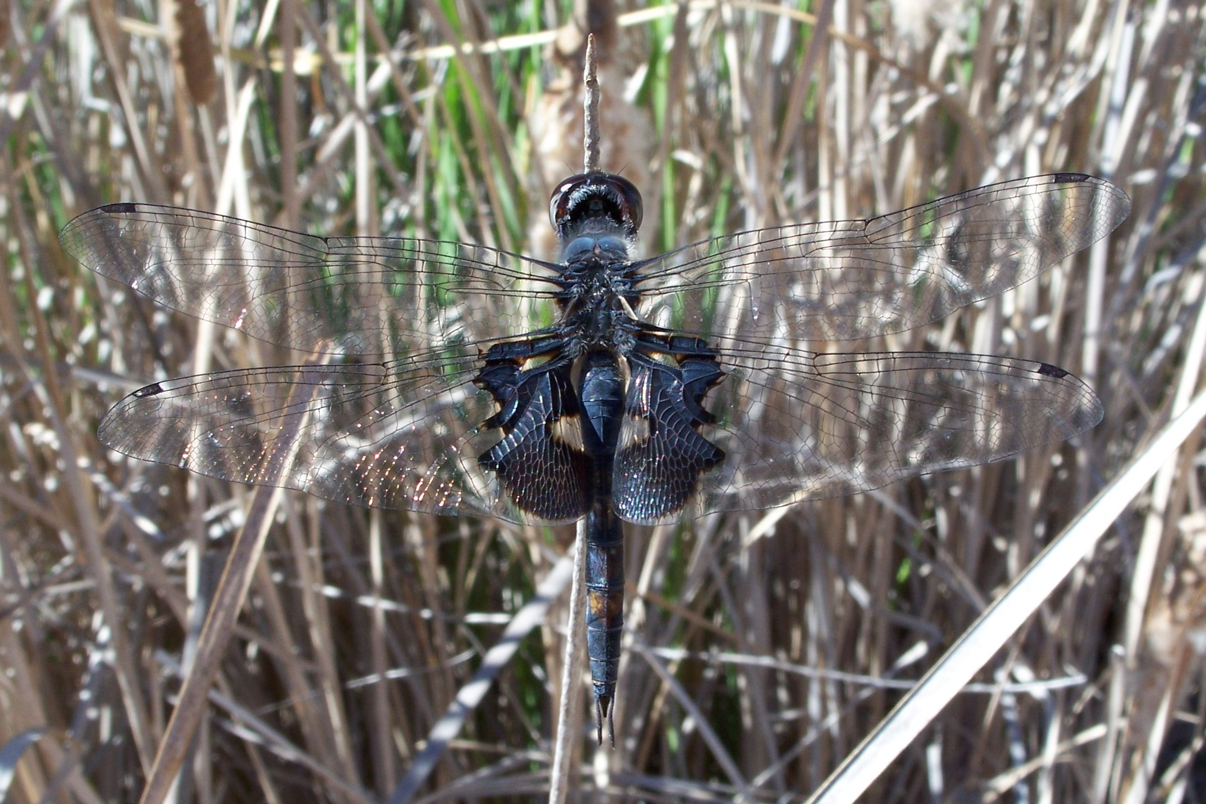 Black Saddlebags